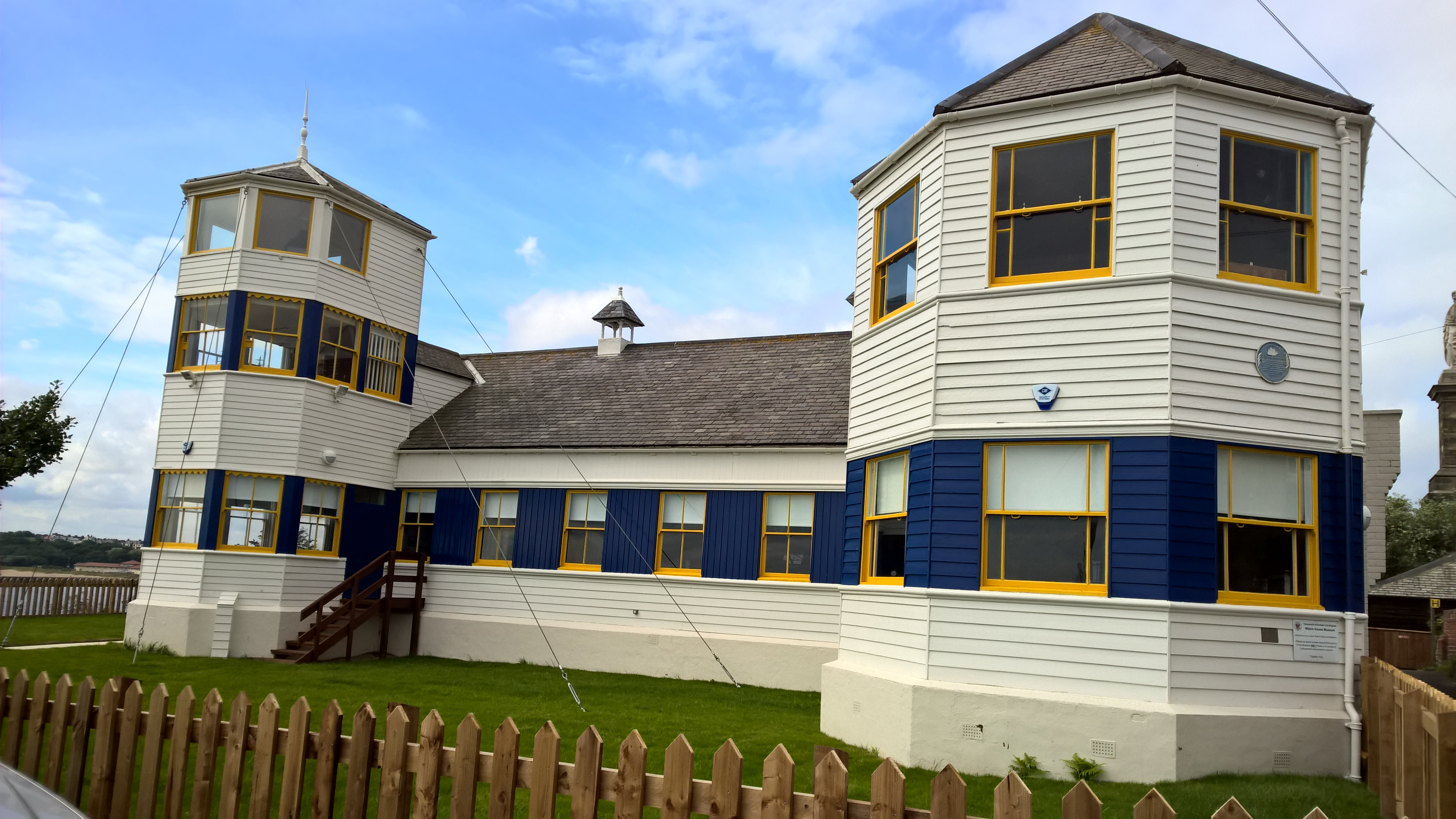 Watch House of Tynemouth Volunteer Life Brigade, an active land-sea rescue organisation established in 1864; a Grade II listed building dating from 1886-7, which houses a small museum.